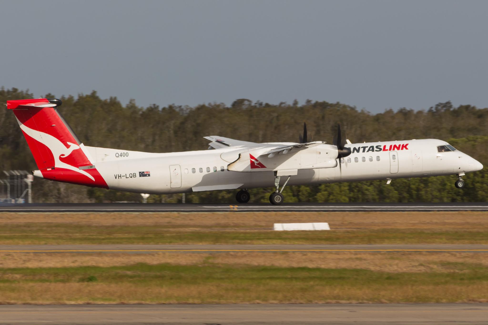 VH-LQB YBBN